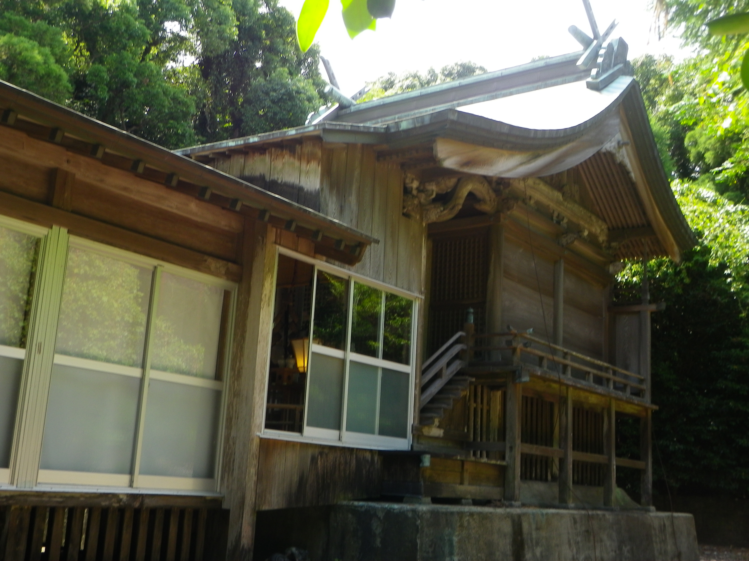 Yaku Shrine honden (main hall)